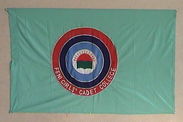 FGCC FLAG